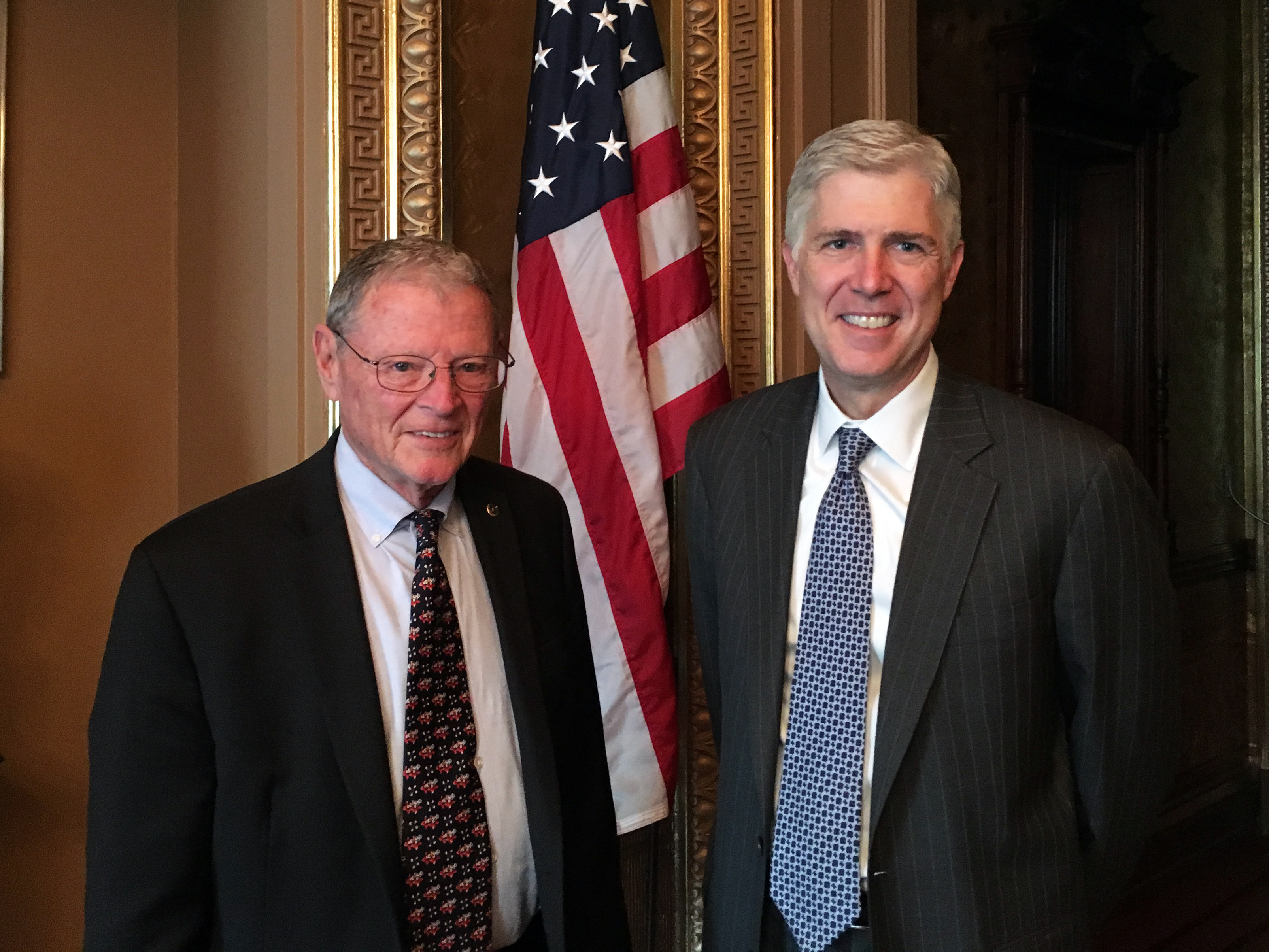 Tuesday, March 28, 2017 WASHINGTON— U.S. Sen. Jim Inhofe (R-Okla.) today met with Judge Neil Gorsuch, nominee to serve on the U.S. Supreme Court. Inhofe released the following statement. “Judge Gorsuch is a smart, diligent and thoughtful jurist. I am impressed by his remarkable commitment to the Constitution and the separation of power our founders envisioned. Oklahoma is within the jurisdiction of the 10th Circuit Court of Appeals, on which Judge Gorsuch sits, and I have seen his judicial philosophy first hand. In Burwell v. Hobby Lobby, he wrote a concurring opinion in favor of the Oklahoma company’s position, and upholding our First Amendment right to religious freedom. Judge Gorsuch is a qualified mainstream jurist who is well respected by conservatives and liberals alike and I urge Senate Democrats to allow and up or down vote on Gorsuch. I look forward to confirming him to the bench.”